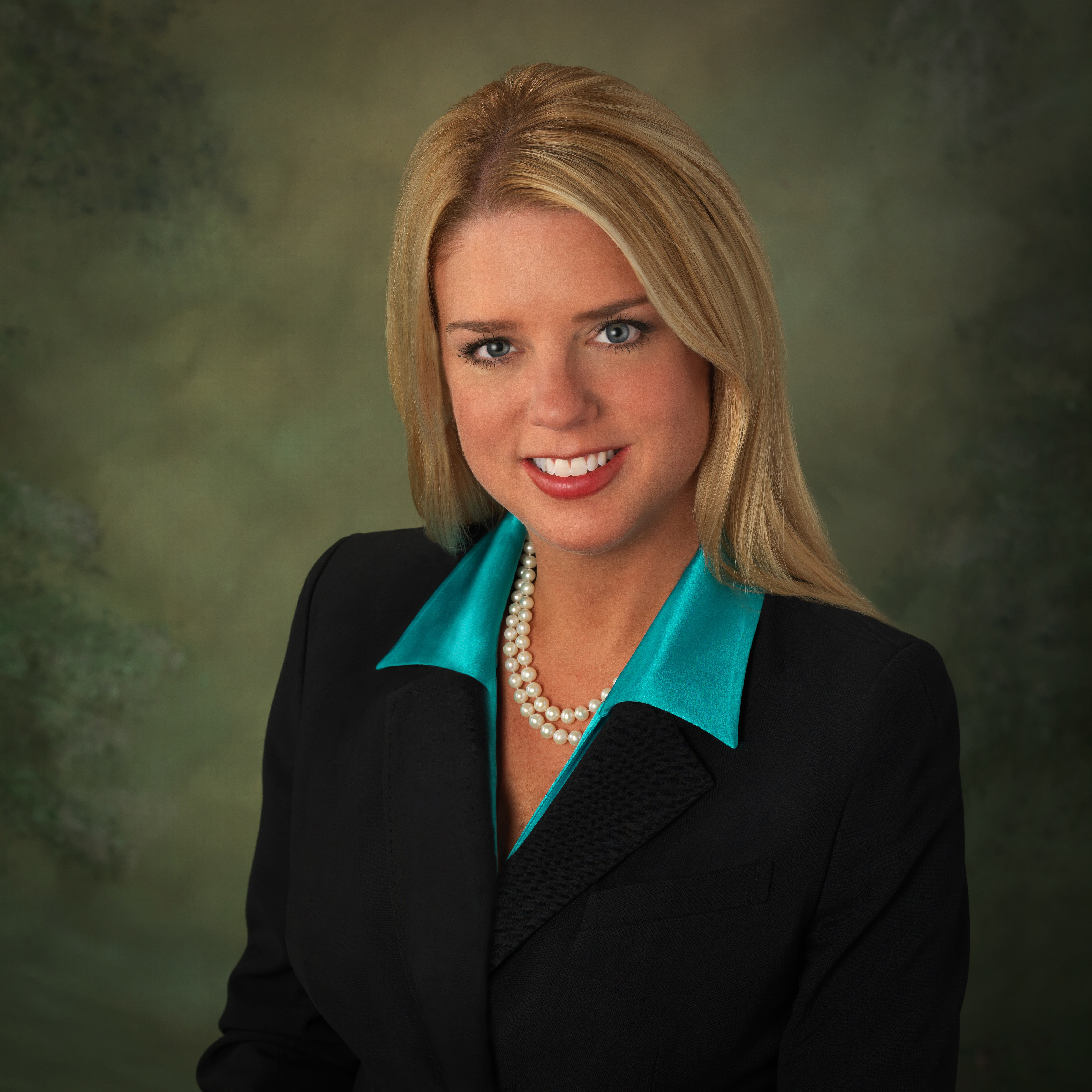 Florida's State Attorney General Pam Bondi